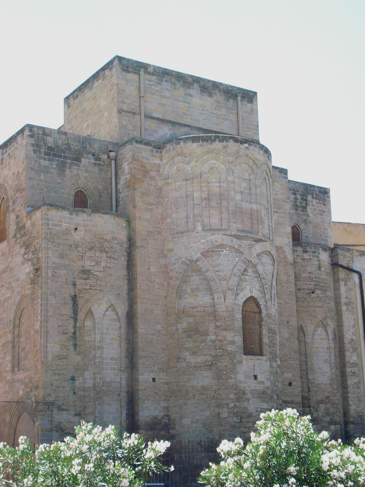 Magione-apse